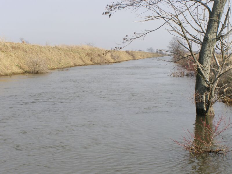 Reeves Ditch draining most of Pleasant Township